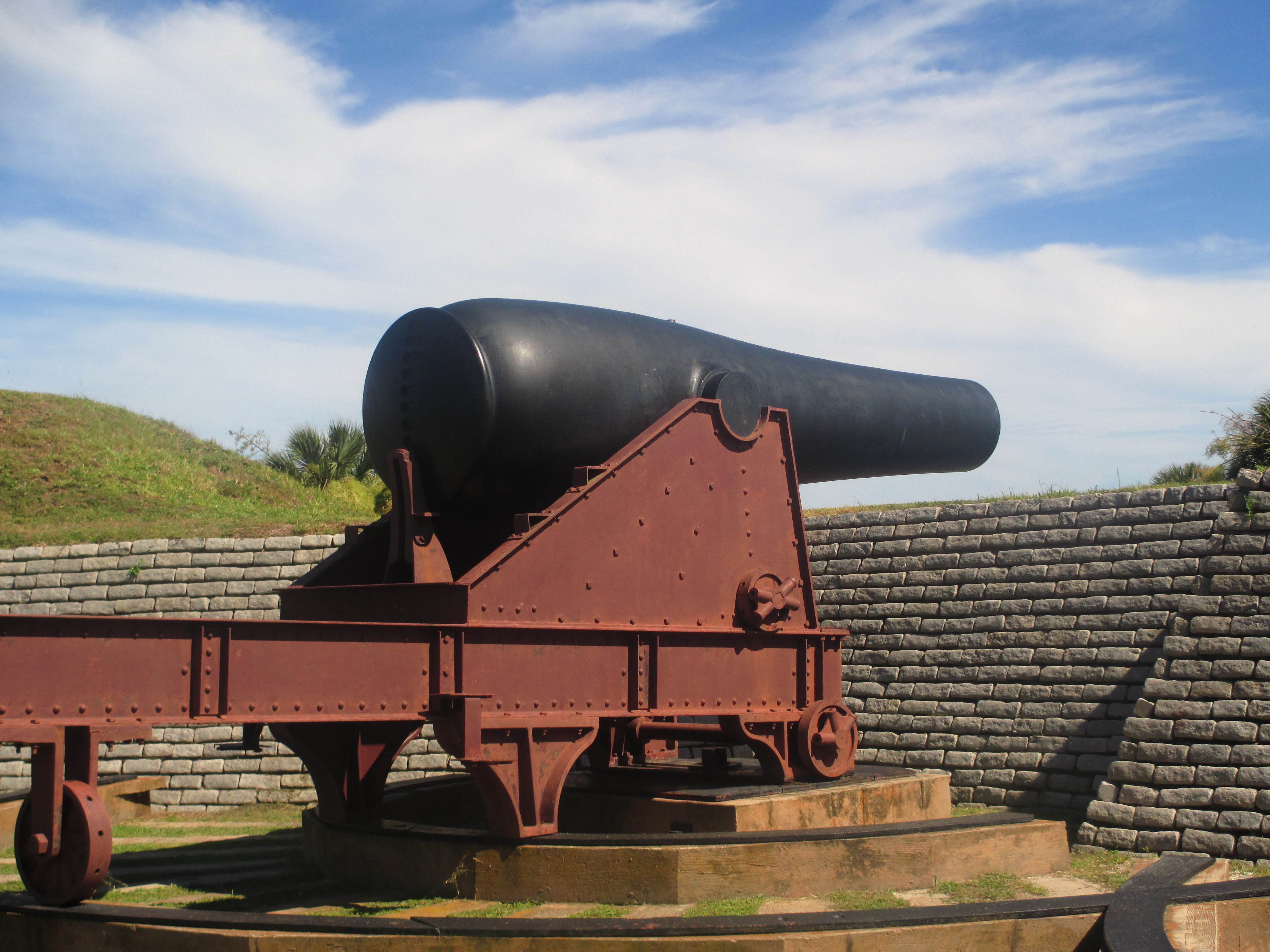 I took photo with Canon camera of cannon displayed at Fort Moultrie National Monument.